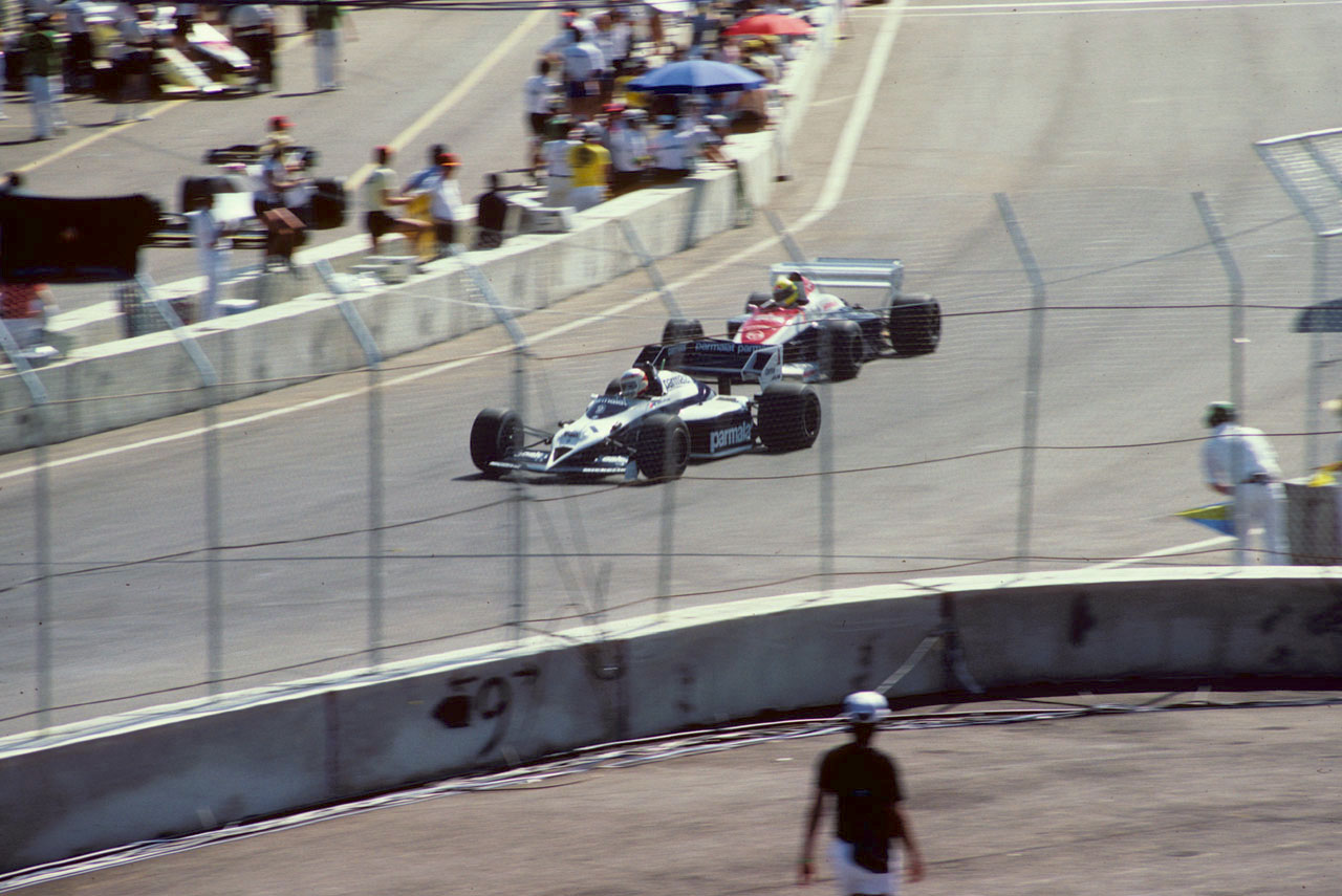 Nelson Piquet, #1 Brabham-BMW leads Ayrton Senna (Toleman). Piquet spun out in Lap 45. He was the Formula 1 World Driving Champion in 1981, 1983 and 1987. Ironically, his driver's license in his native Brazil was revoked in 2007 for reckless driving.